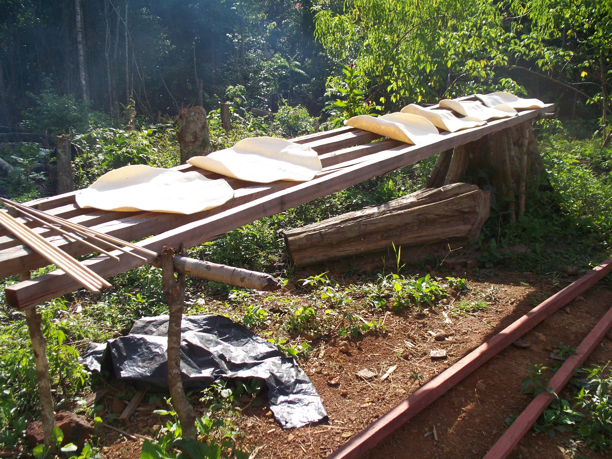 Cassava bread drying at Paramakotoi, Guyana